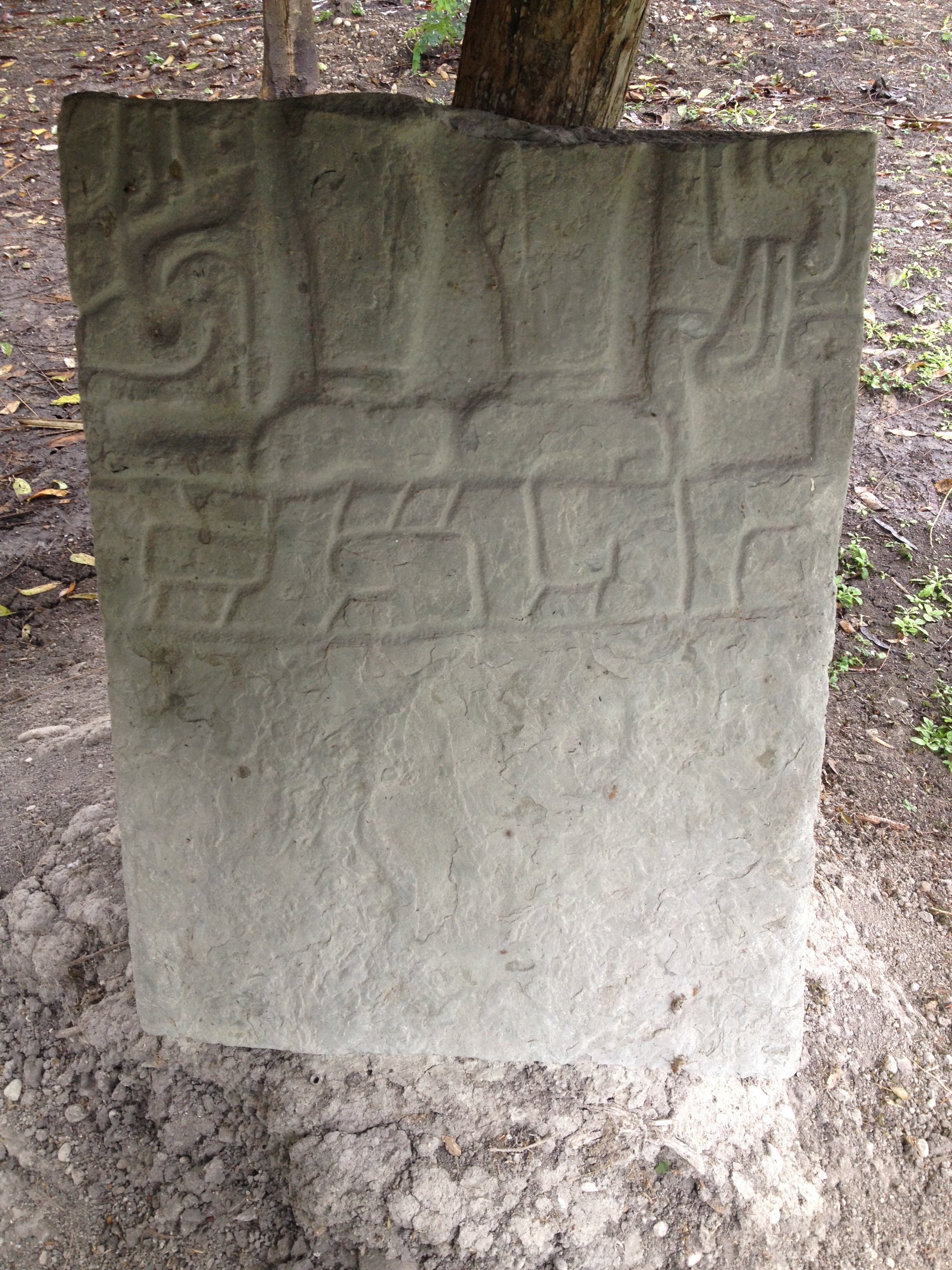 Stele